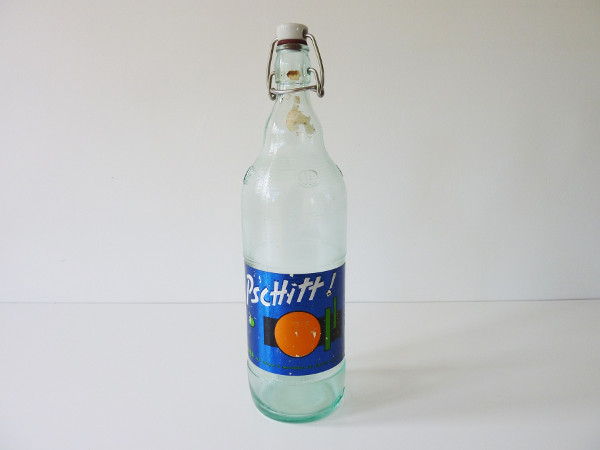 Bottle of lemonade Pschitt, 1960/1970